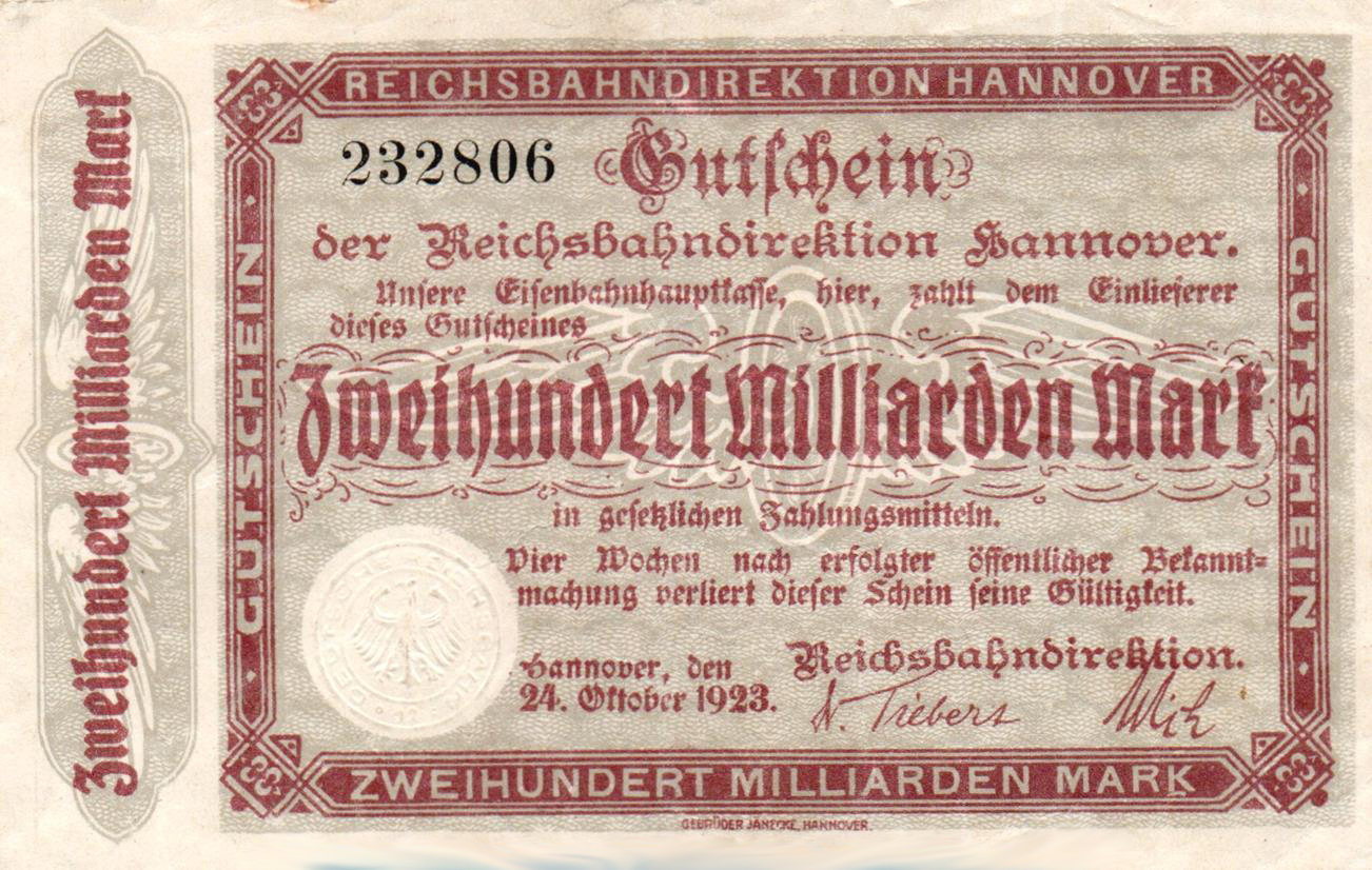 Hyperinflation in the Weimar Republic ...